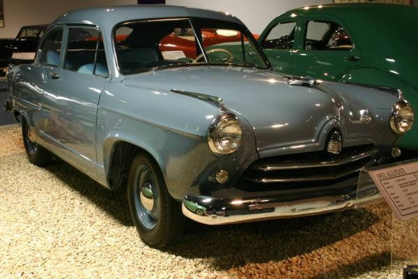 1952 Allstate photographed by Dougw of at the National Automobile Museum in Reno, Nevada.